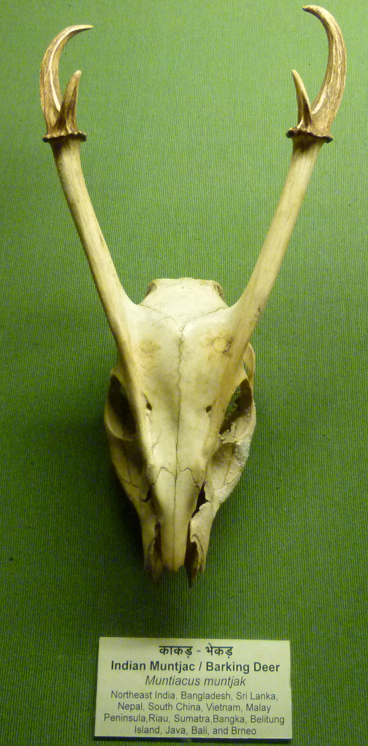 Skull of Indian Muntjac, Prince of Wales Museum, Bombay